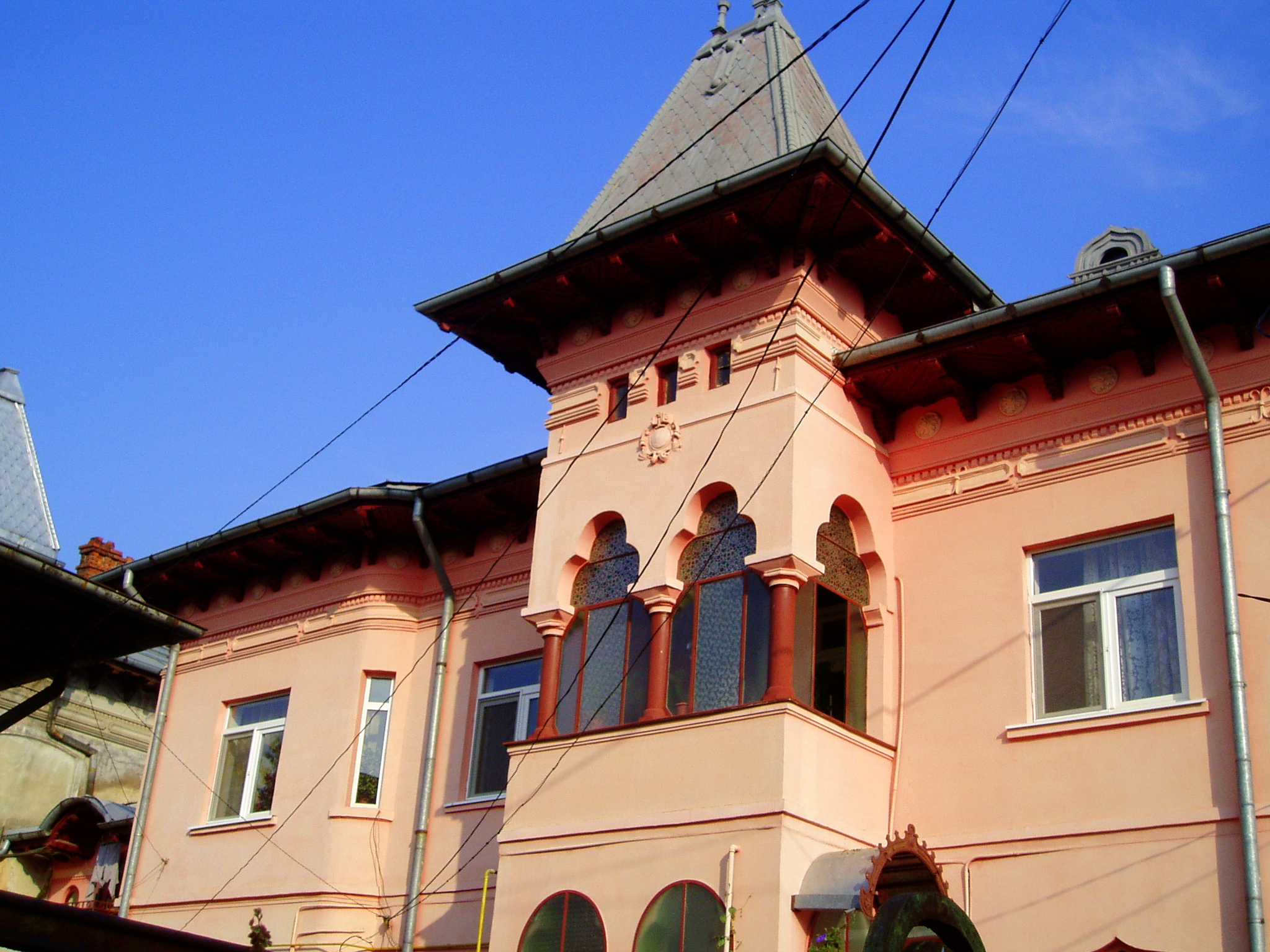 House located at Decebal street nr 34, znd at Primaveri street, nr 33, Ploieşti, Judeţul Prahova, Romania. This house was very likely conceived and built by architect Toma T. Socolescu. It contains all peculiarities of his style and his signature appears on the roof. We are the only heirs and descendants of Toma T. Socolescu (died in 1960 in Bucharest) and therefore owner of all his intellectual rights.